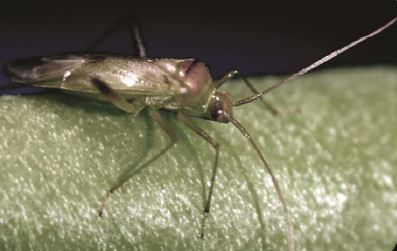 Photo of a green mirid on a green bean